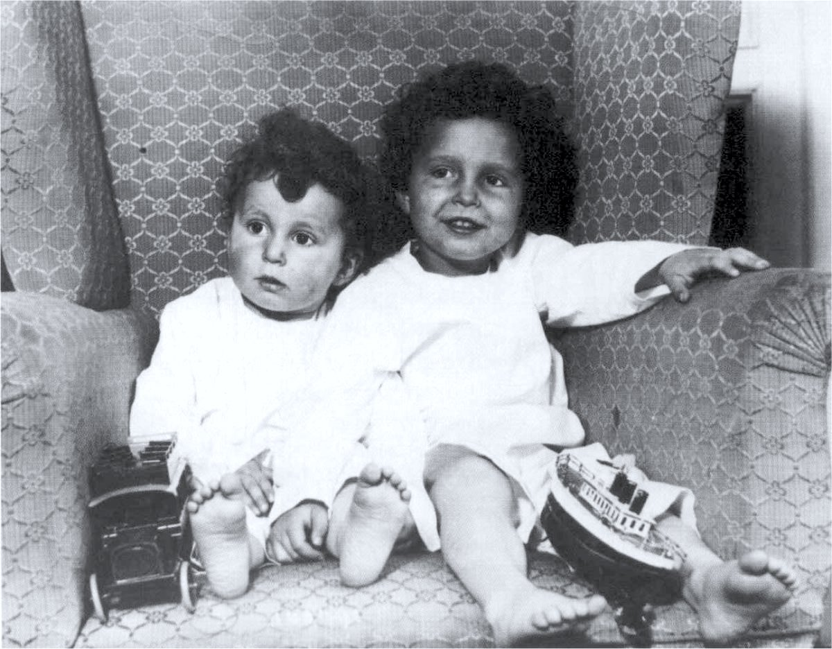 Michel Marcel Navratil, and his younger brother, Edmond Roger. Taken in April 1912 to publish in newspapers in order to assist in their identification.